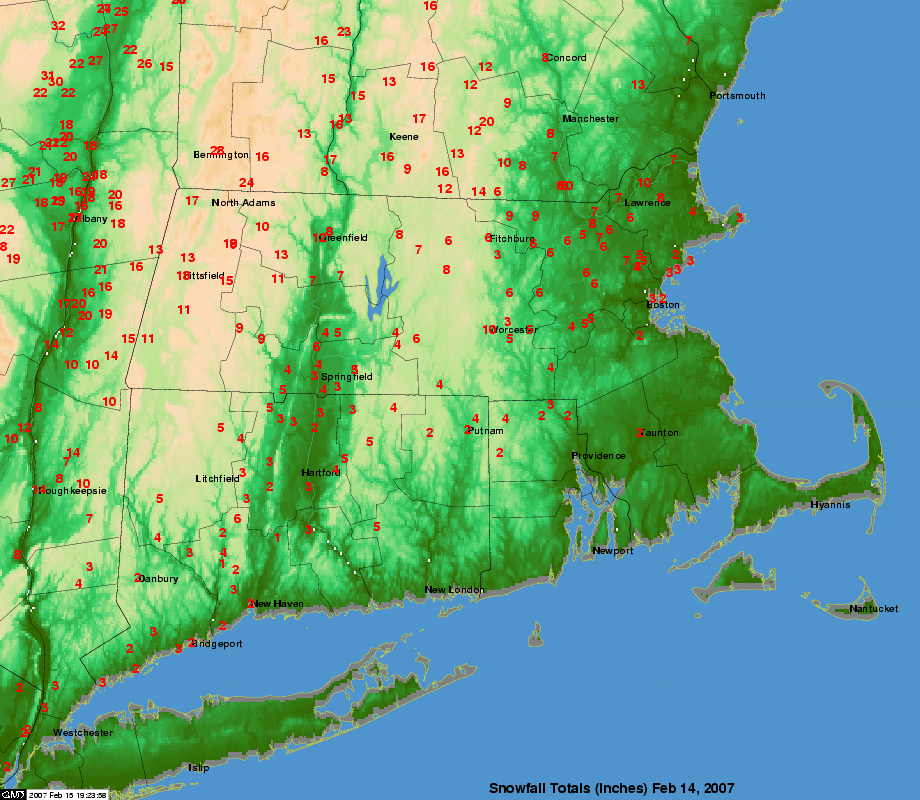 A plot of snowfall totals from the Valentine's Day Blizzard of 2007.